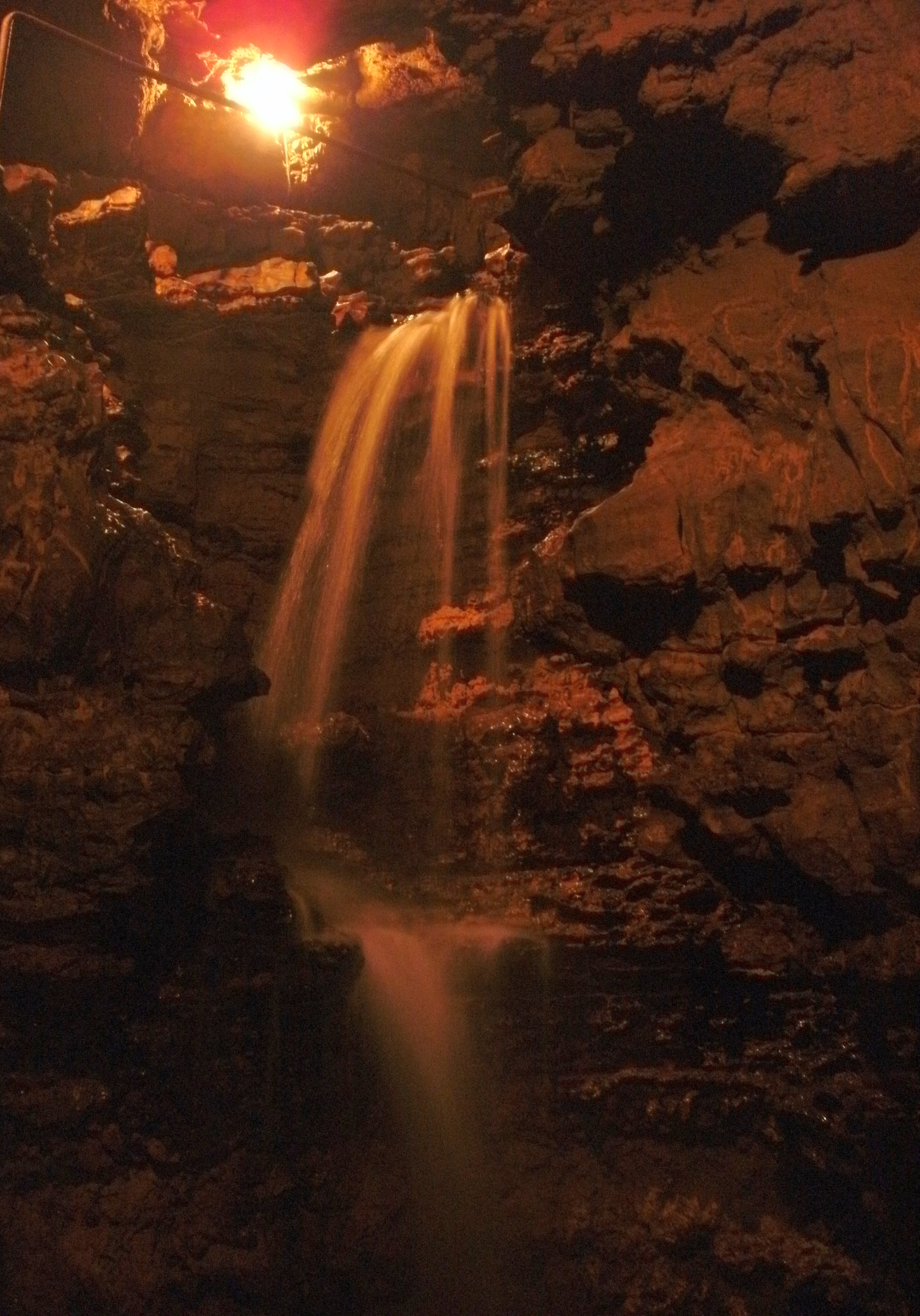 Tschamberhöhle, a show cave in Rheinfelden (Baden), Germany.